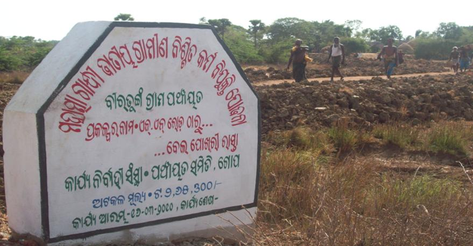 Biratunga : Gram Panchyat Work